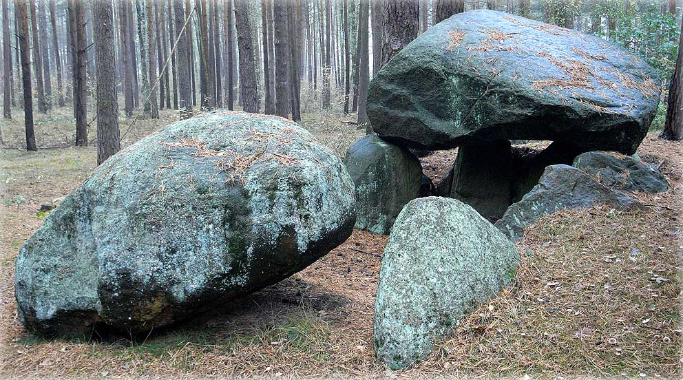 Großsteingräber bei Diesdorf, Grab 3